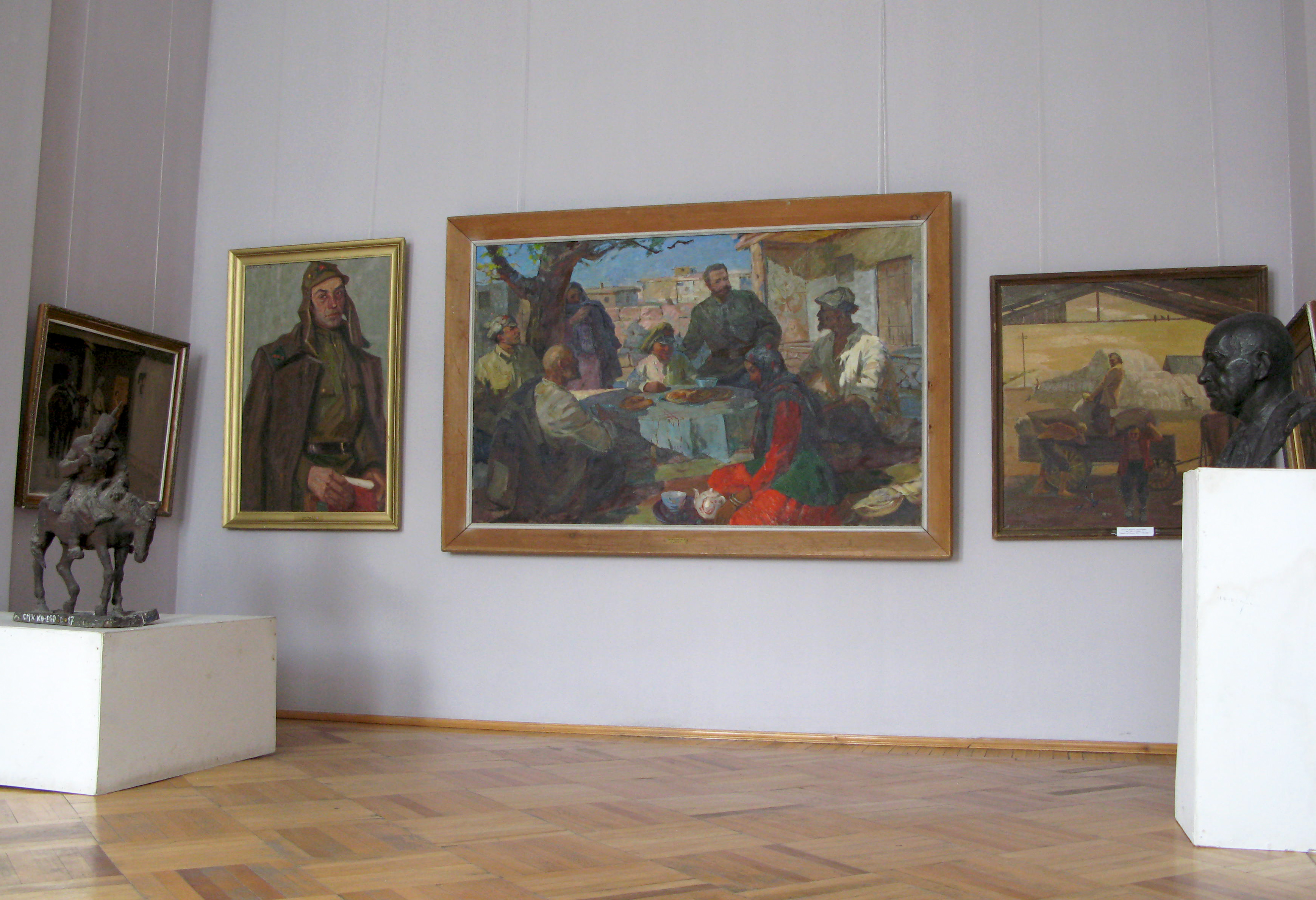 Exposition of Salsk Art Museum named after V.K.Nechitailo, Rostov on Don region, Russian Federation